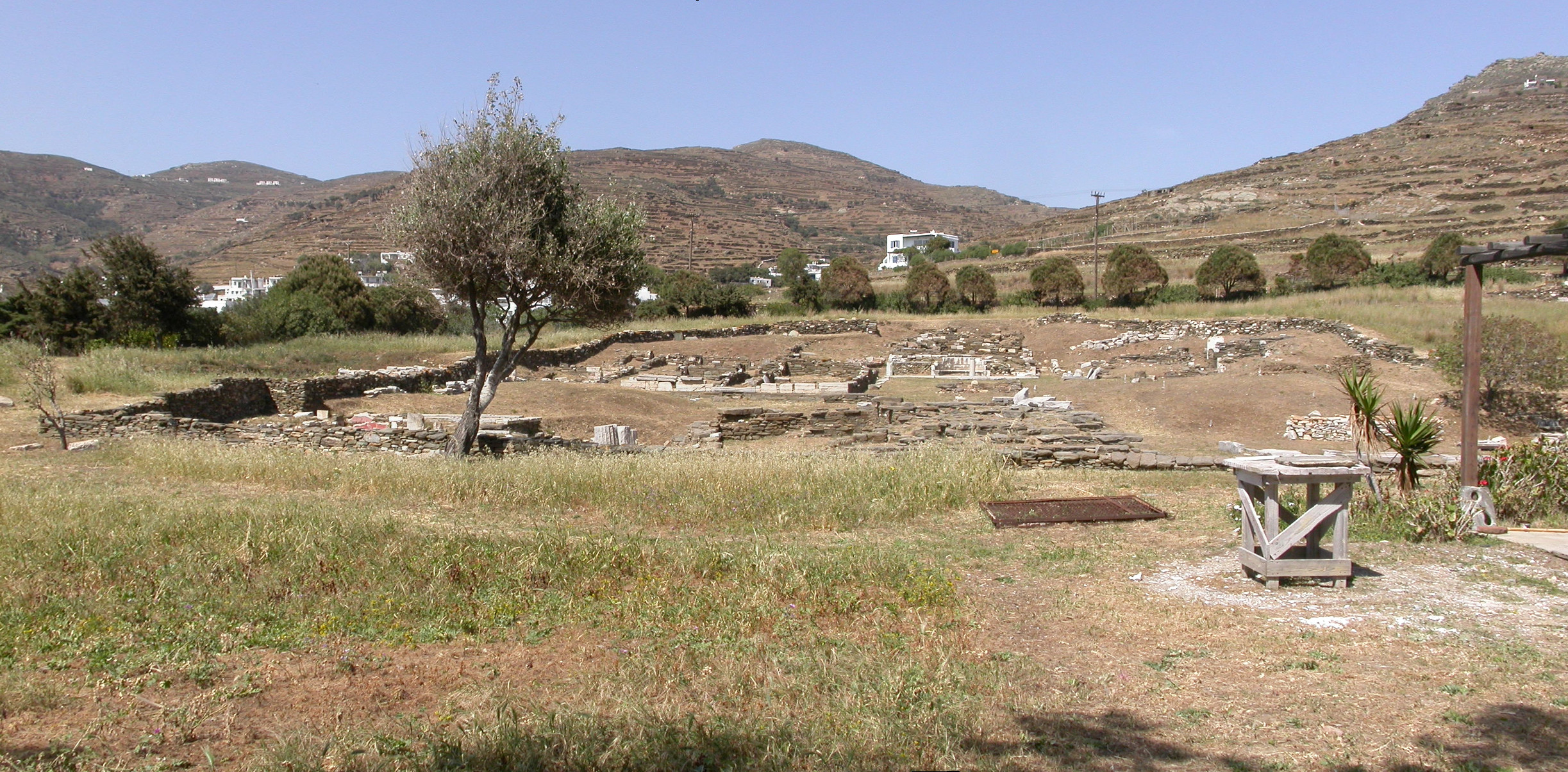 Sanctuary of Poseidon and Amphitrite at Kionia, Tinos, Greece